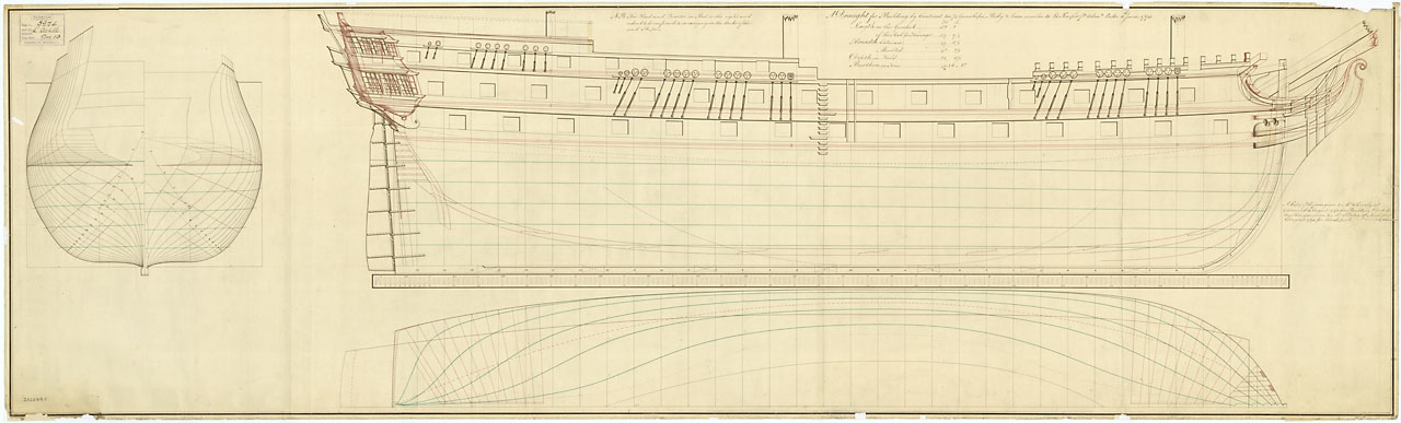 Plan showing the body plan, sheer lines, longitudinal ahlf-breadth for 'Achille' (1798) and 'Superb' (1798), both 74-gun Third Rate, two-deckers as built, based on the 'Pompee' (1793), a captured French Third Rate.